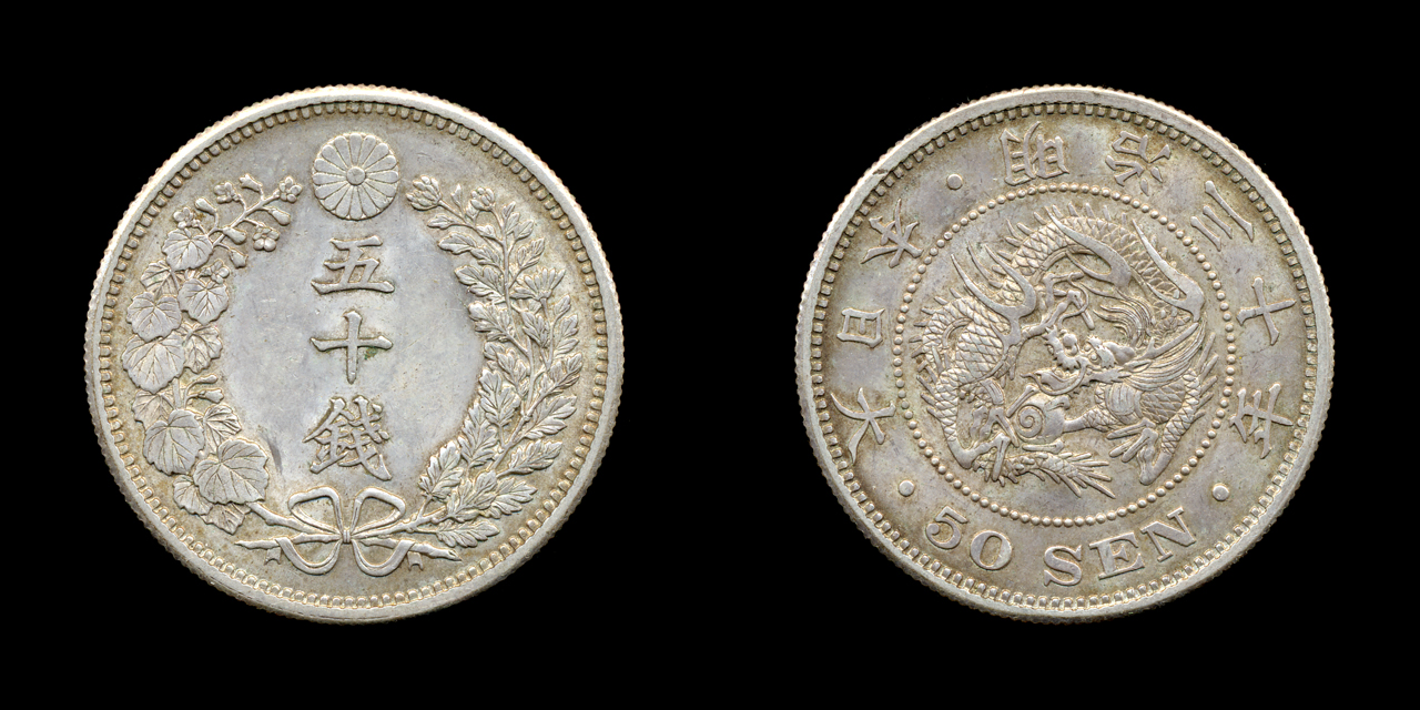 50sen-M30